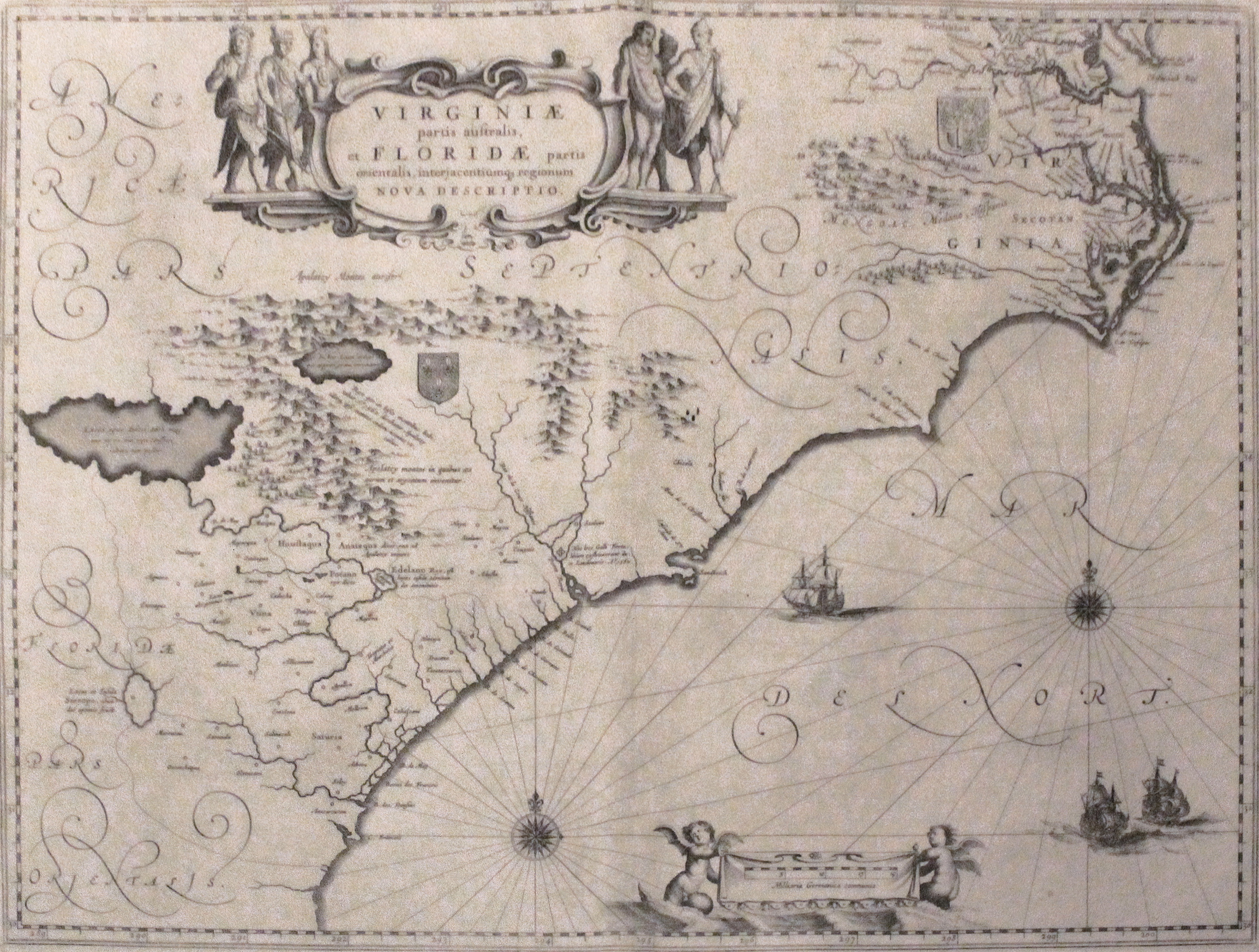 Map depicting the former Colony of Virginia (according to the Second Charter) and part of Florida.